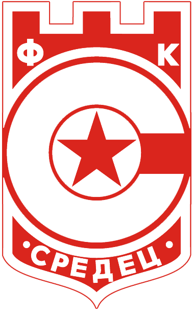 Logo of CFKA Sredets Sofia 1985-1989.